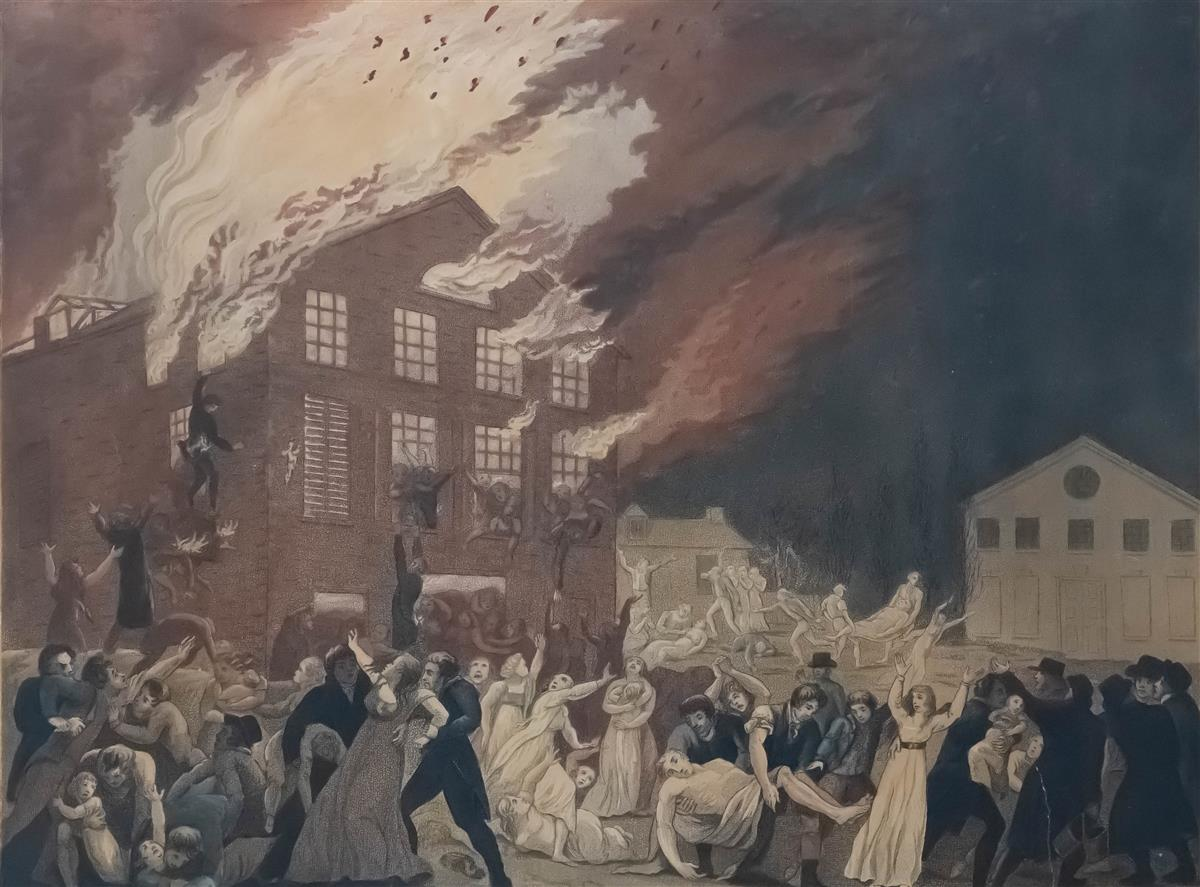 The Burning of the Theatre in Richmond, Virginia, on the Night of the 26th December 1811, Aquatinta: 13 3/4 x 17 in. (sight)